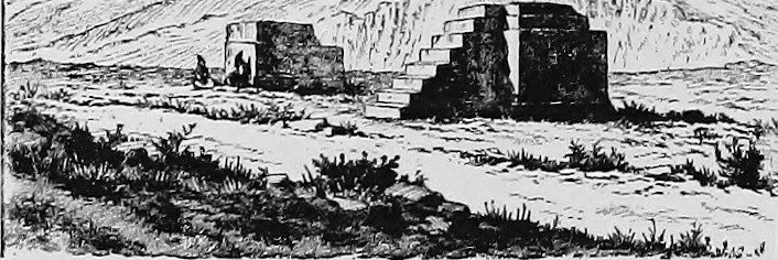 Identifier: cu31924091762140 Title: History of Egypt, Chaldea, Syria, Babylonia and Assyria Year: 1903 (1900s) Authors: Maspero, G. (Gaston), 1846-1916 Sayce, A. H. (Archibald Henry), 1845-1933 Subjects: Civilization, Ancient History, Ancient Publisher: London : Grolier Society Text Appearing Before Image: is hollowed out on thesummit of each altar/ At Meshed-i-Murgab, on the site ofthe ancient Pasargadae, the altars have disappeared, but thebasements on which they were erected are still visible, asalso the flight of eight steps by which they were approached.Those altars on which burned a perpetual fire were not leftexposed to the open air : they would have run too great a risk of contracting im-purities, such as dustborne by the wind, flightsof birds, dew, rain, orsnow. They were en-closed in slight struc-tures, well protected bywalls, and attaining insome cases consider-able dimensions, or inpavilion-shaped edifices of stone adorned with columns.The sacriflcial rites were of long duration, and frequent, andwere rendered very complex by interminable manual acts,ceremonial gestures, and incantations. In cases where thealtar was not devoted to maintaining a perpetual fire, itwas kindled when necessary with small twigs previouslybarked and purified, and was subsequently fed with precious Text Appearing After Image: THE TWO IKAOTAN ALTARS OF MUKGAB.^ ^ According to Perrot and Chipiez, it is not impossible that thesealtars were older than the great buildings of Persepolis, and that theywere erected for the old Persian town which Darius raised to the positionof capital. ^ Drawn by Boudier, from Flandin and Coste.